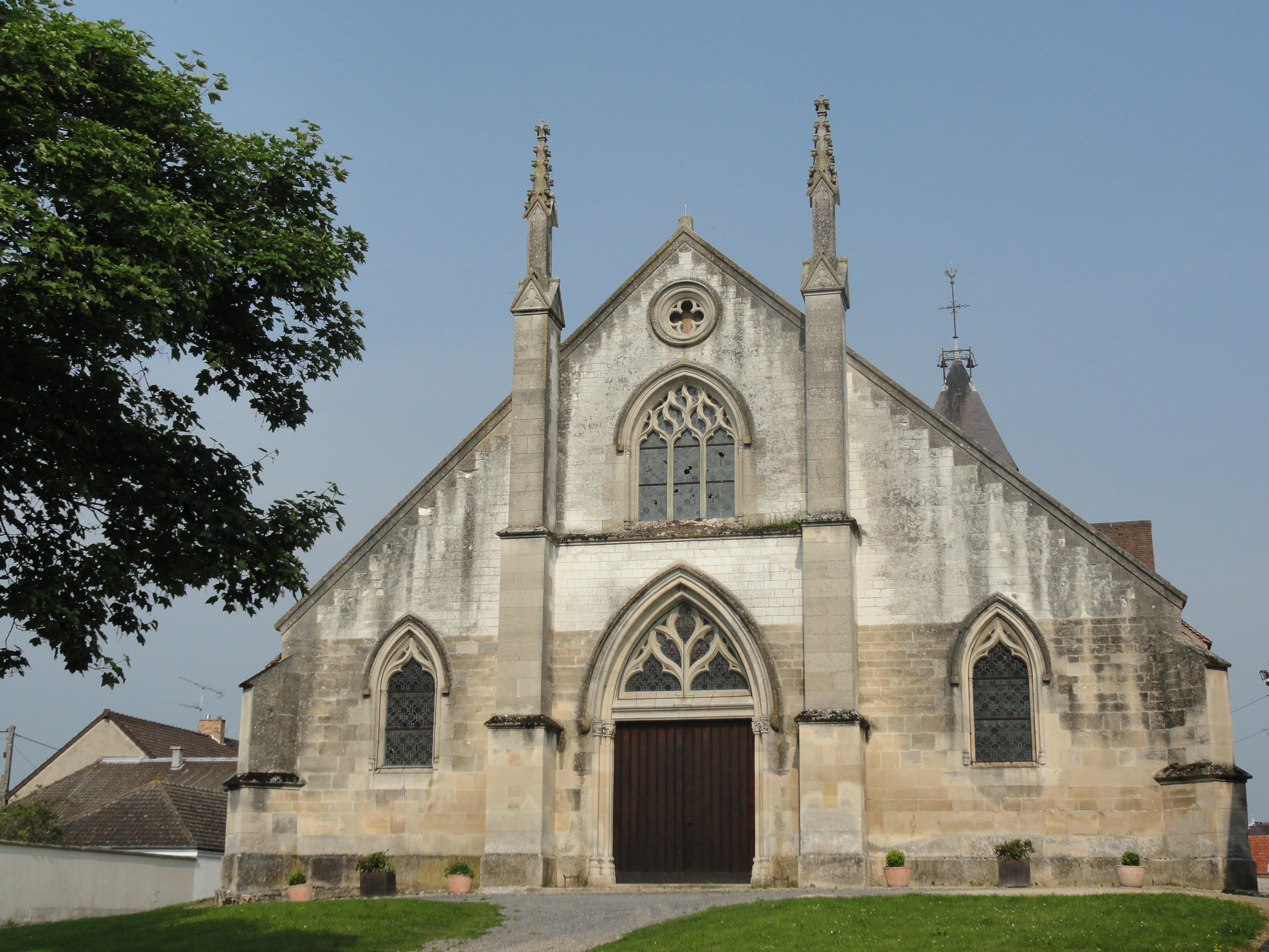 Church of Bisseuil (Marne)